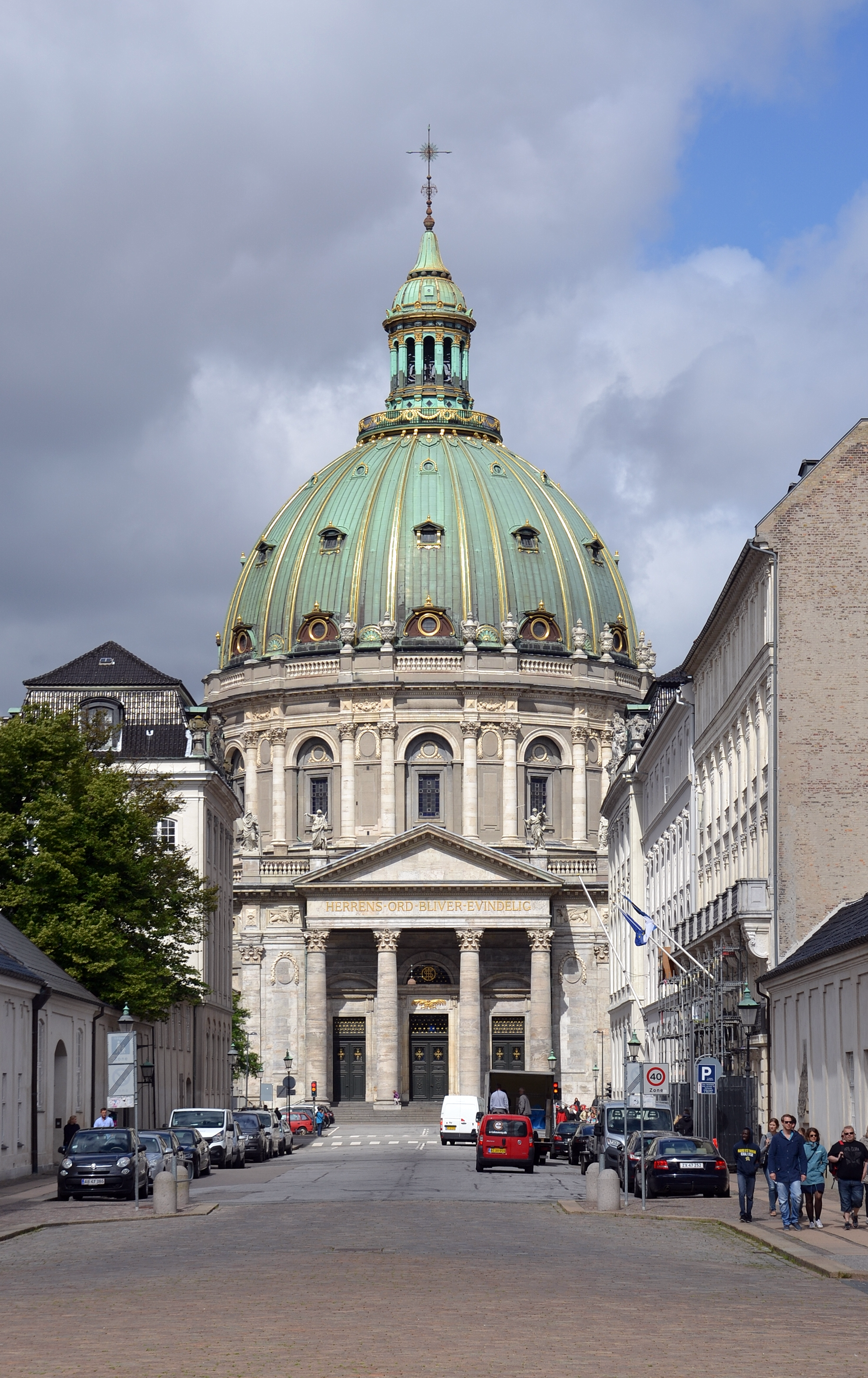 Marmorkirken (the Marble Church) in Copenhagen, Denmark